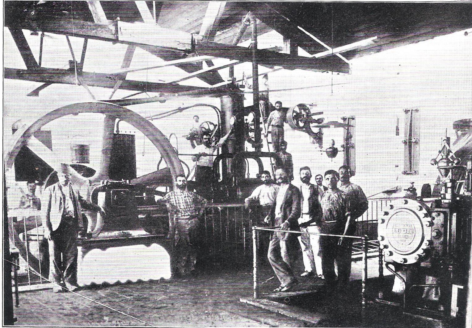 The picture are from old book (that was published in 1899), some of the picture are fro 1899, some are even older: This work or image is now in the public domain because its term of copyright has expired in Israel. According to Israel's copyright statute from 2007 (translation), a work is released to the public domain on 1 January of the 71st year after the author's death (paragraph 38 of the 2007 statute) with the following exceptions: A photograph taken on 24 May 2008 or earlier — the old British Mandate act applies, i.e. on 1 January of the 51st year after the creation of the photograph (paragraph 78(i) of the 2007 statute, and paragraph 21 of the old British Mandate act). If the copyrights are owned by the State, not acquired from a private person, and there is no special agreement between the State and the author — on 1 January of the 51st year after the creation of the work (paragraphs 36 and 42 in the 2007 statute). See also category: PD Israel & British Mandate. For the scan and the the crop: The name of the book (in hebrew) is: "מראה ארץ ישראל והמושבות" by (in hebrew): "ישעיהו ראפאלוביטש ושותפו משה אליהו זאכס"